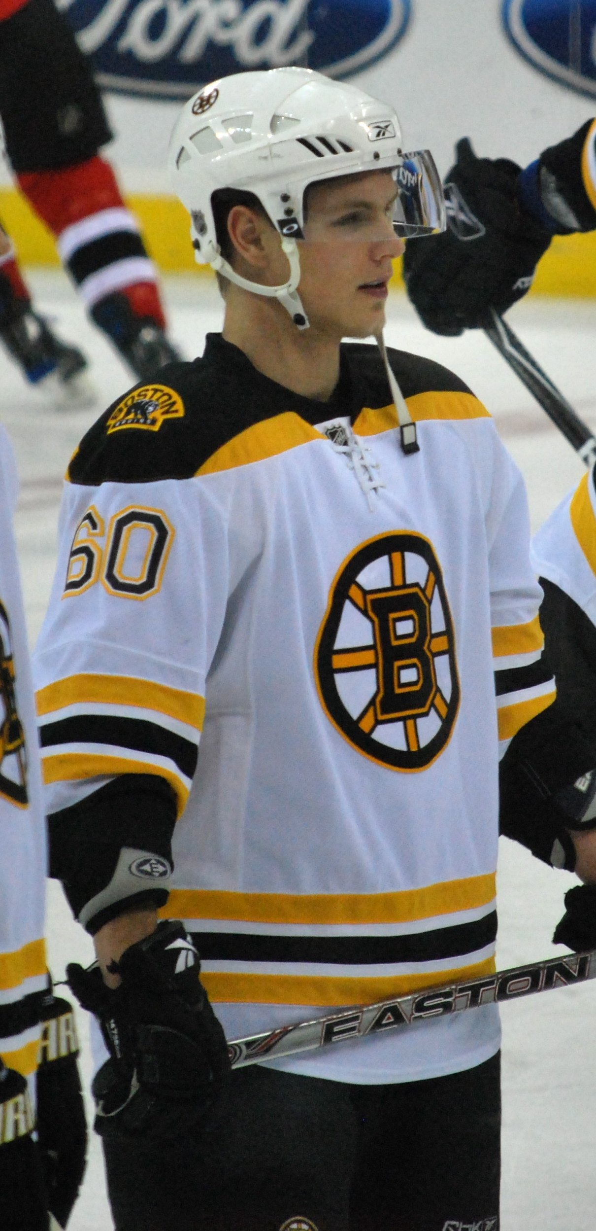 Vladimír Sobotka of the Bruins